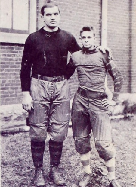 Chigger Browne next to Germany Schulz before a game against Harvard